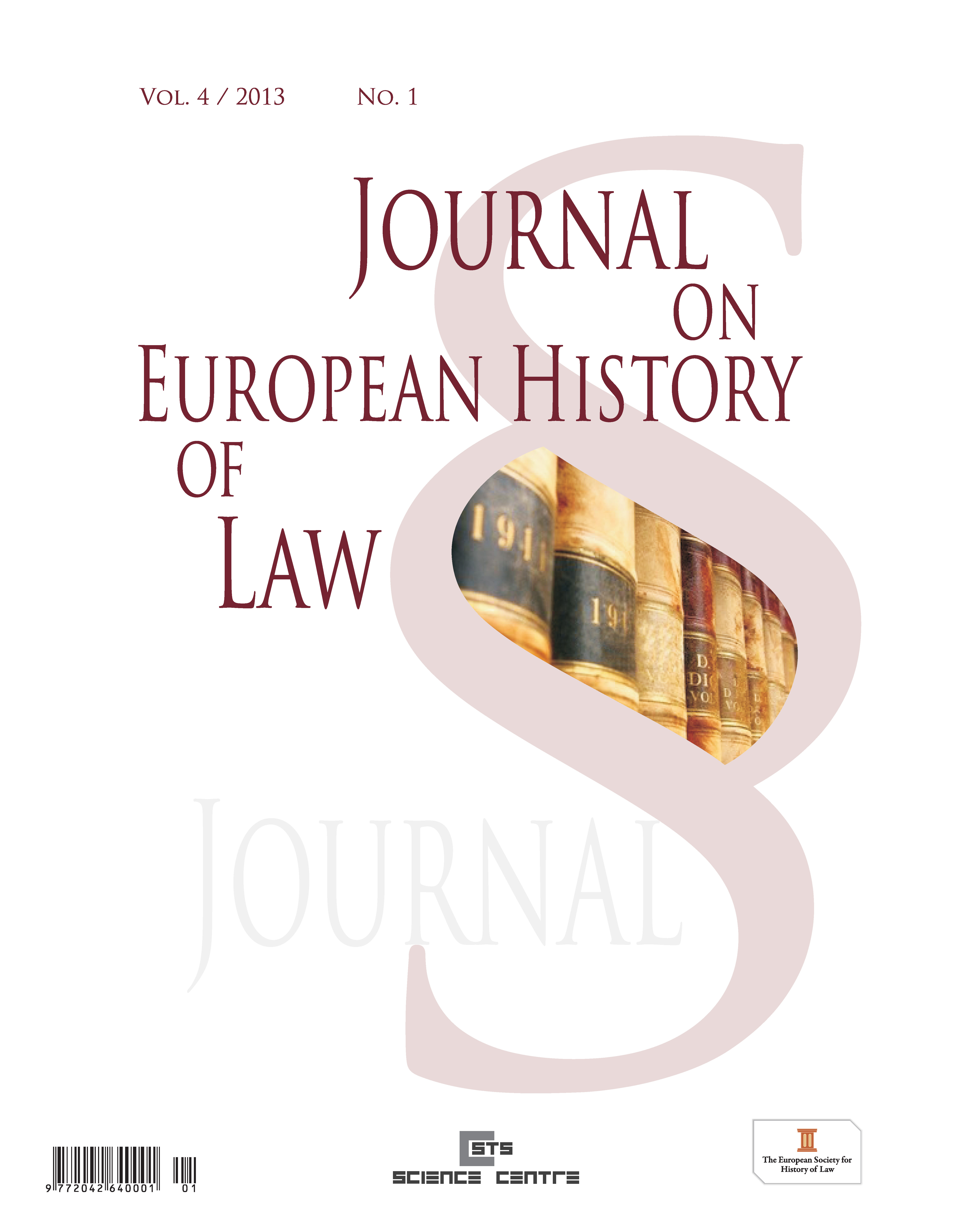 Journal on European History of Law - cover